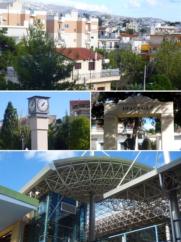 Irakleio collage